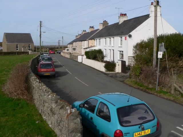 Rehoboth Terrace, Llanfaelog, Anglesey. A view of Rehoboth Terrace on the A4080. The old Rehoboth Chapel (left) is now converted into a private residence, a common feature in Welsh villages.